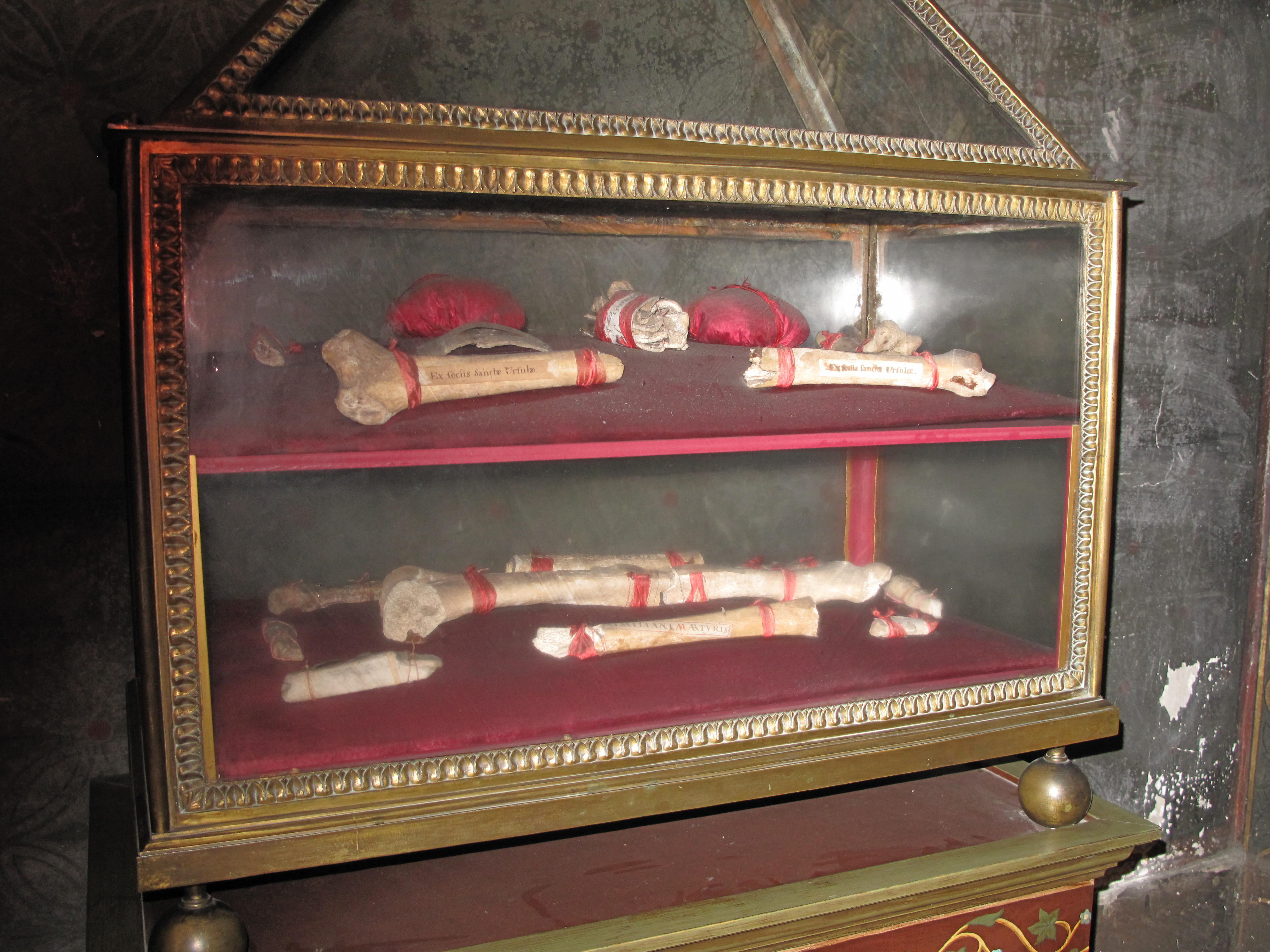 Relics supposed to be of Saint-Ursula in the church Saint-Séverin in Paris.